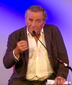 Cropped version of Image:Peter Falk.jpg